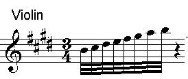 Concerto No. 1 in E major Op. 8 "Spring" ("La primavera") RV 269